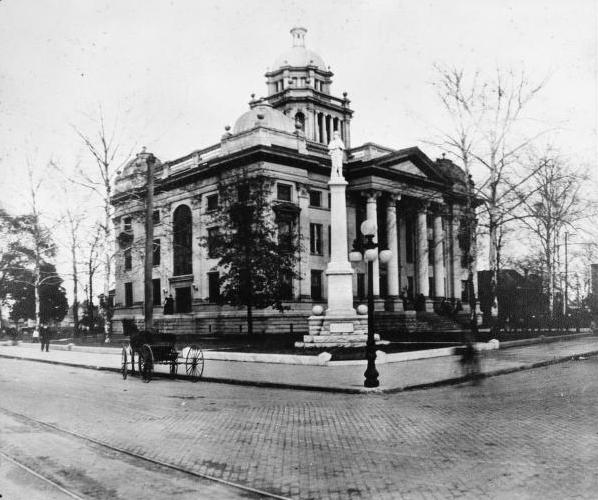 The Lowndes County Courthouse in 1900 — located in Valdosta, southern Georgia.